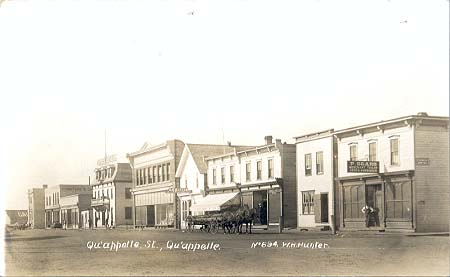 West side of Main Street, Qu'Appelle, Saskatchewan, looking south; turn of the 20th century. Note the still-standing Red & White grocery store and Post Office, pictured below, today; the Queen's Hotel and all other buildings in the photo are now gone with vacant lots in their places.